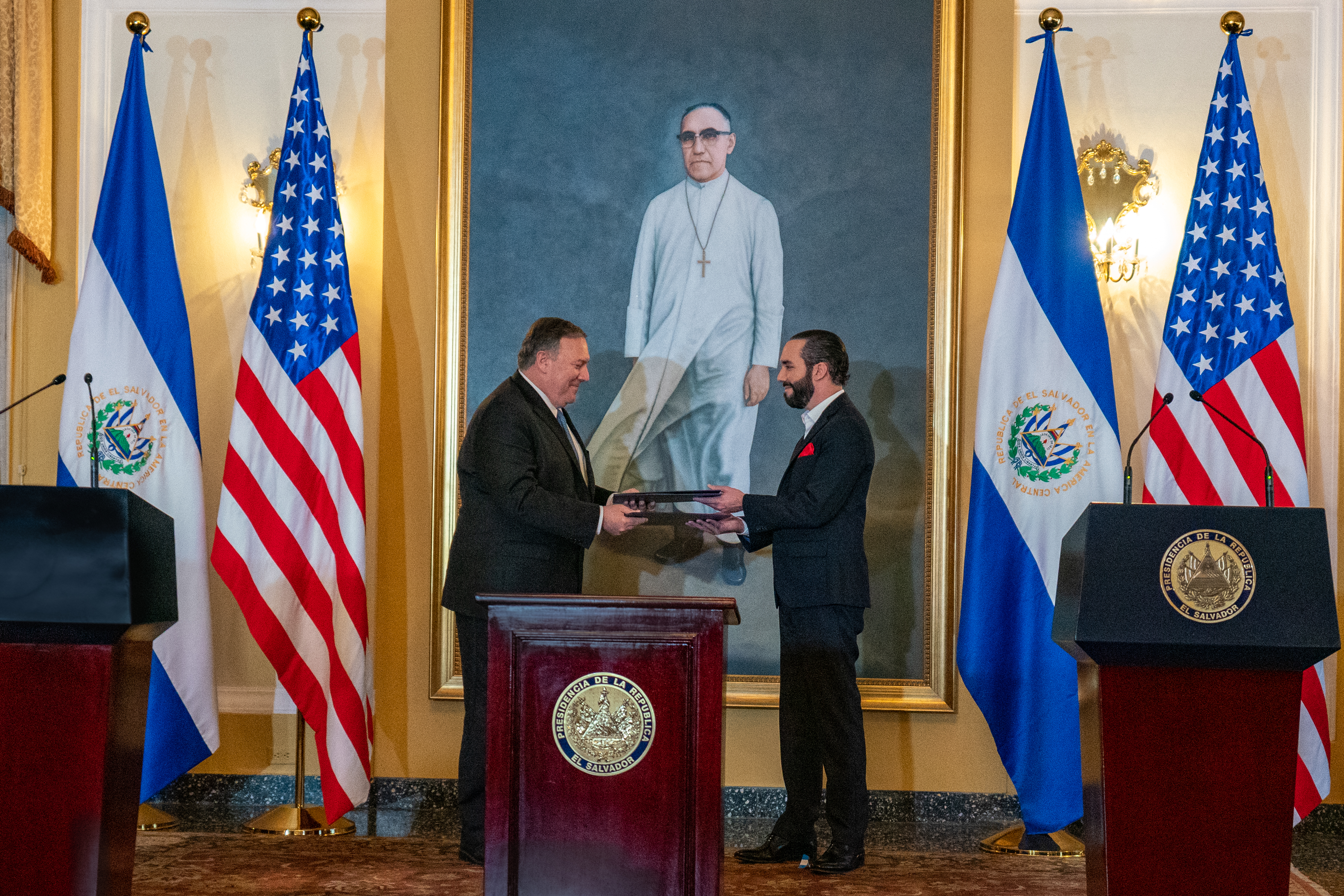 U.S. Secretary of State Michael R. Pompeo participates in a signing ceremony for the CSL Lease Extension with Salvadoran President Nayib Bukele, in San Salvador, El Salvador, July 21, 2019. [State Department photo by Ron Przysucha/ Public Domain]